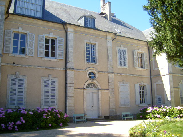 View of the house of George Sand, Nohant